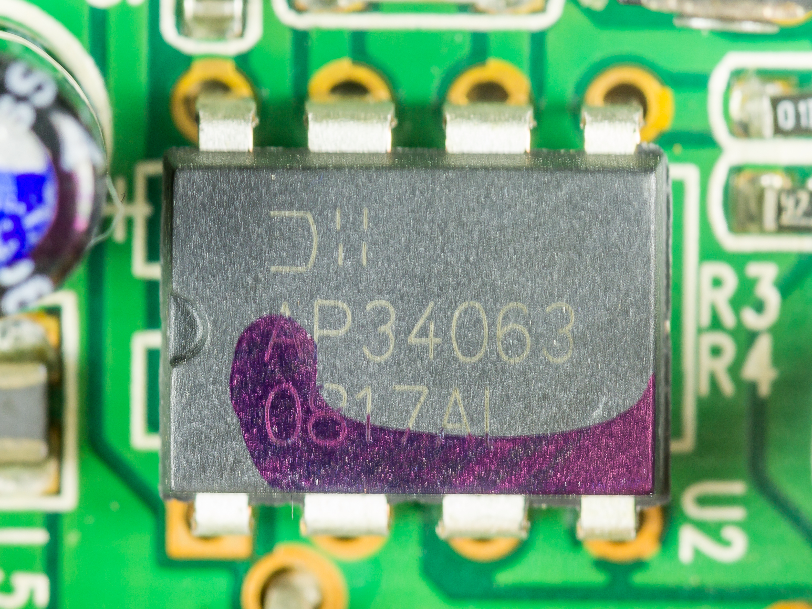 LevelOne FSW-0508TX - Diodes AP34063 - Universal DC/DC Converter